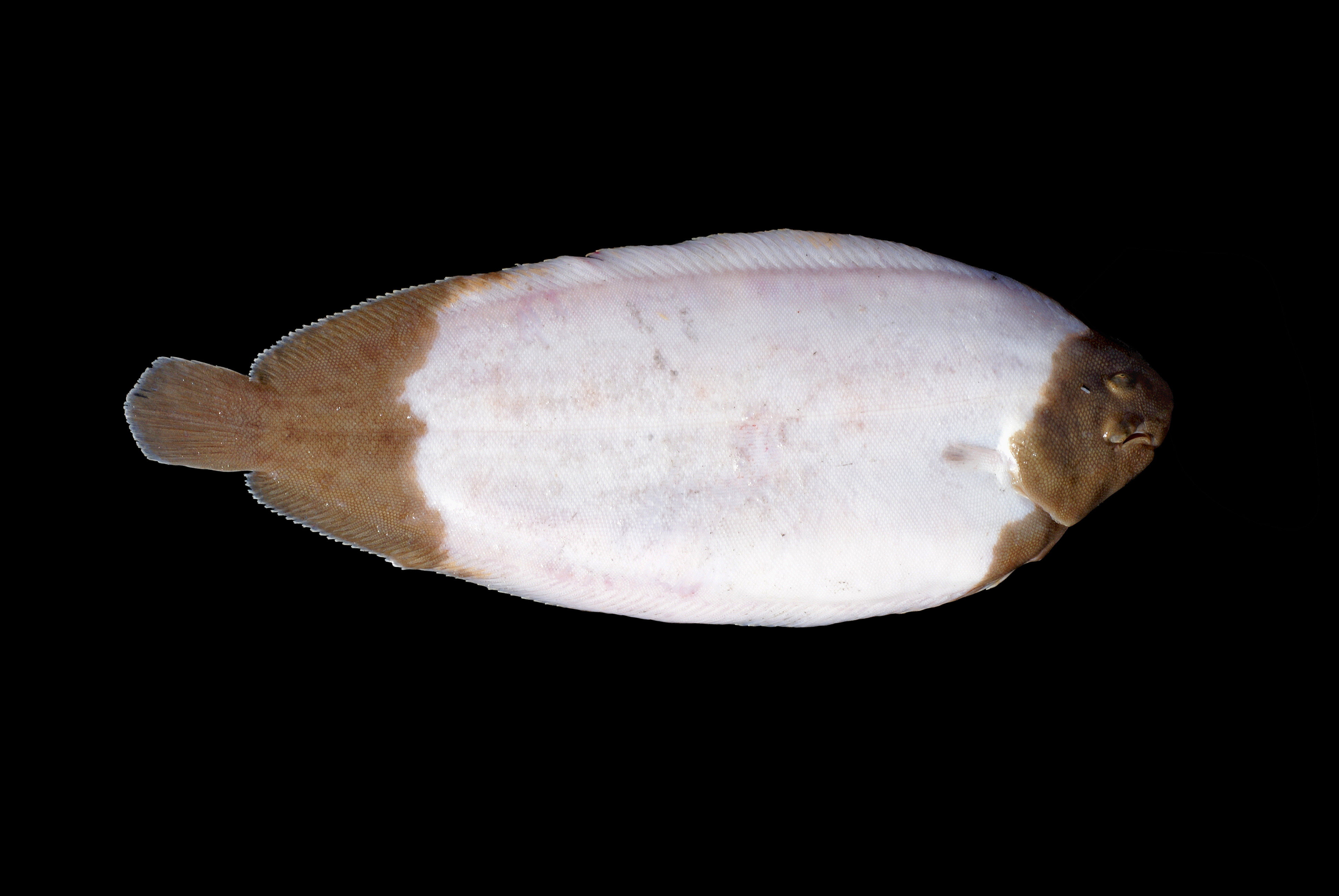 Leucistic Dover Sole from the Belgian coastal waters.